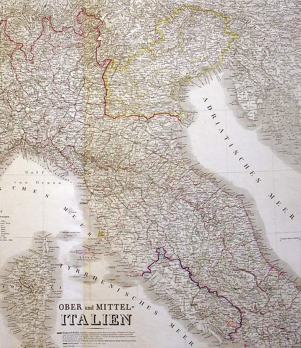 Map of northern and central Italy showing the territorial changes brought about by the upheavals of 1859-60. Austria has lost Lombardy but still retains Venetia (bordered in yellow) while the Papal States (bordered in purple) have been reduced to their core provinces: the so-called Patrimony of Saint-Peter and the Latium respectively northwest and southeast of Rome. Cropped from a map of northern and central Italy by Heinrich Kiepert (1860).